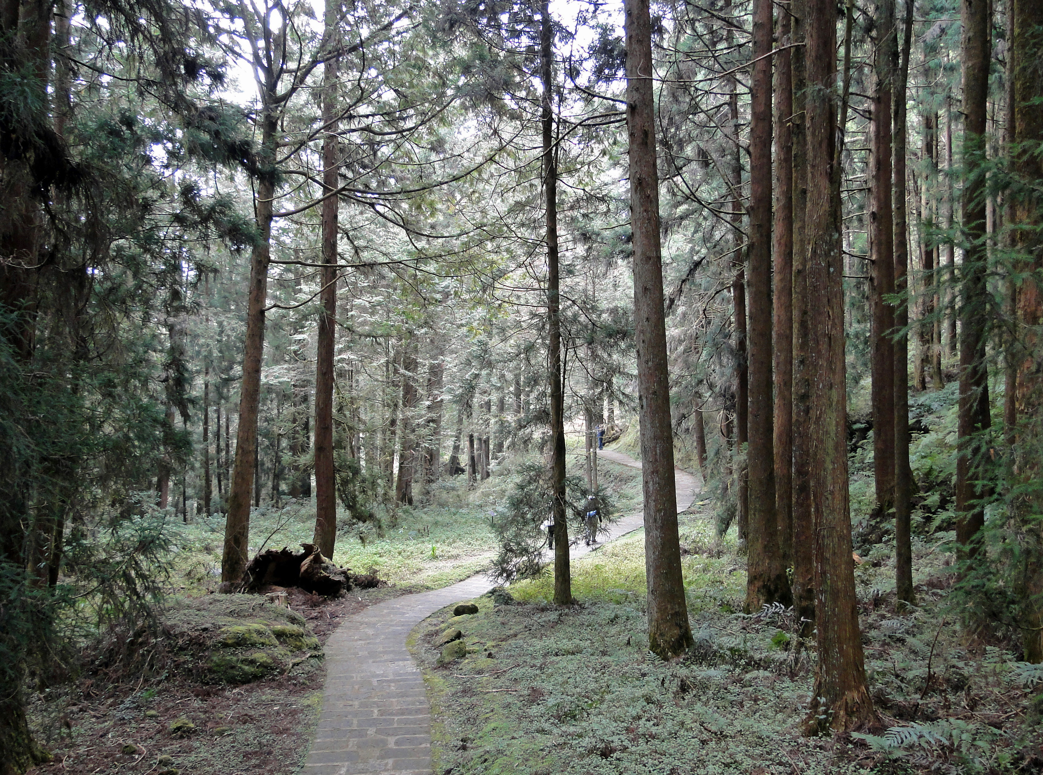 Alishan Forest Park, Taiwan